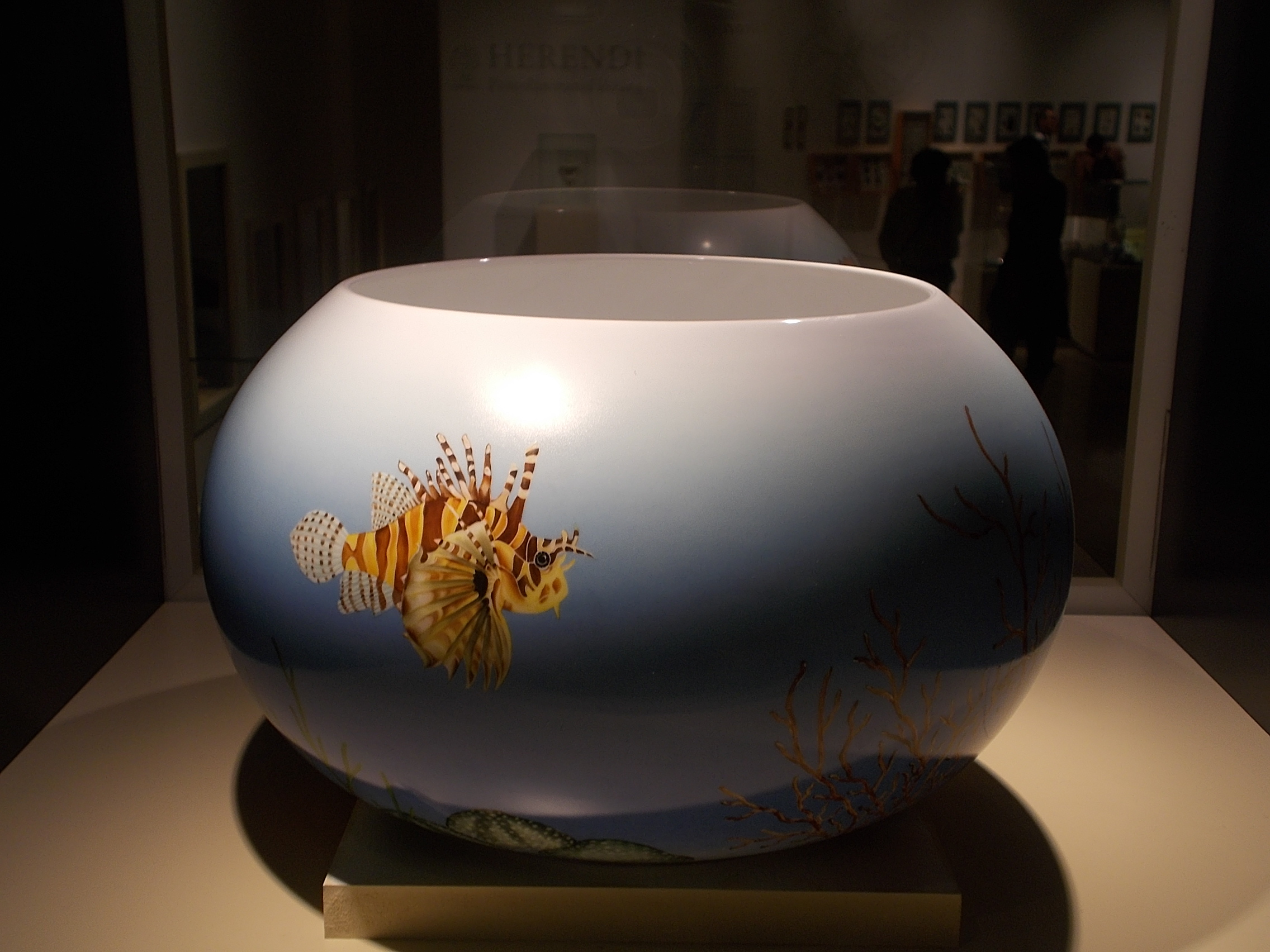 Fragile Nature - Treasures of Herend. (temporary exhibits). Hungarian Natural History Museum (HNHM). - Budapest, VIII. Ludovika tér 2-6.